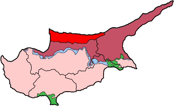 Map of Cyprus showing Kyrenia district. The green areas are the UK Sovereign Base Areas, the blue area is the UN buffer zone. Areas north of the buffer zone are controlled by the Turkish Republic of Northern Cyprus, areas south are controlled by the Greek Cypriot government.